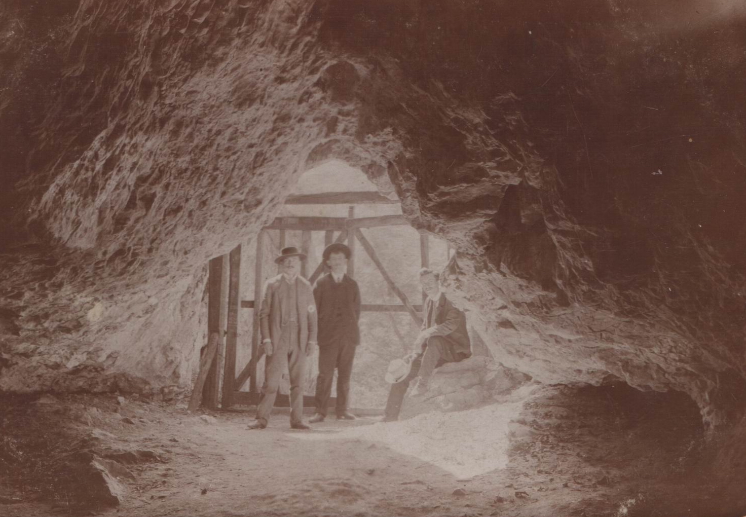 Inside Remete Cave, Hungary (postcard).